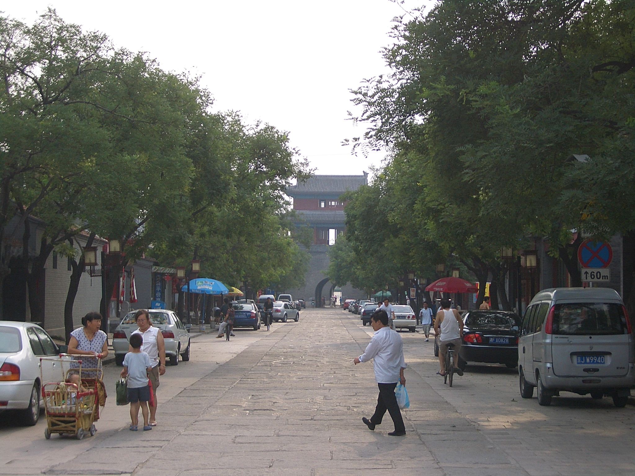 In the main street inside the walls of Wanping Fortress, Beijing. The area houses tourist-oriented shops and galleries